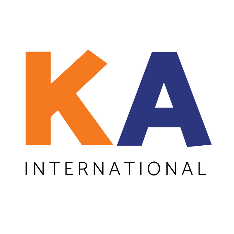 Khalsa Aid International Logo